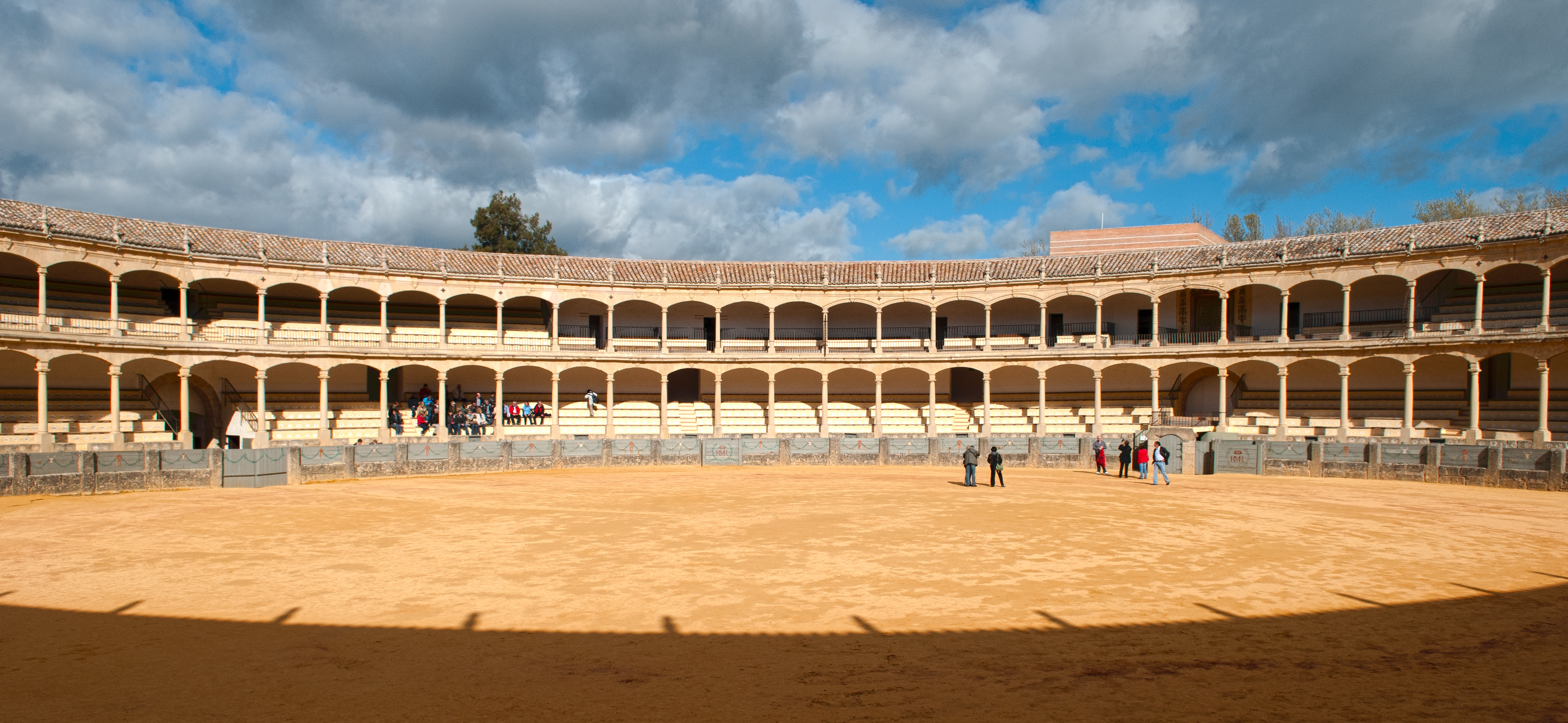 The Plaza de Toros ("bullring") in Ronda, Málaga is one of the oldest operational bullrings in Spain. The arena has a diameter of 66 metres (217 ft), surrounded by a passage formed by two rings of stone. There are two layers of seating, each with five raised rows and 136 pillars that make up 68 arches. The Royal Box has a sloping roof covered in Arabic tiles. Plaza de Toros de Ronda. (2012, January 22). In Wikipedia, The Free Encyclopedia. Retrieved 19:18, April 14, 2012, from This image is a compilation of 12 photos in Photoshop CS6 Beta.